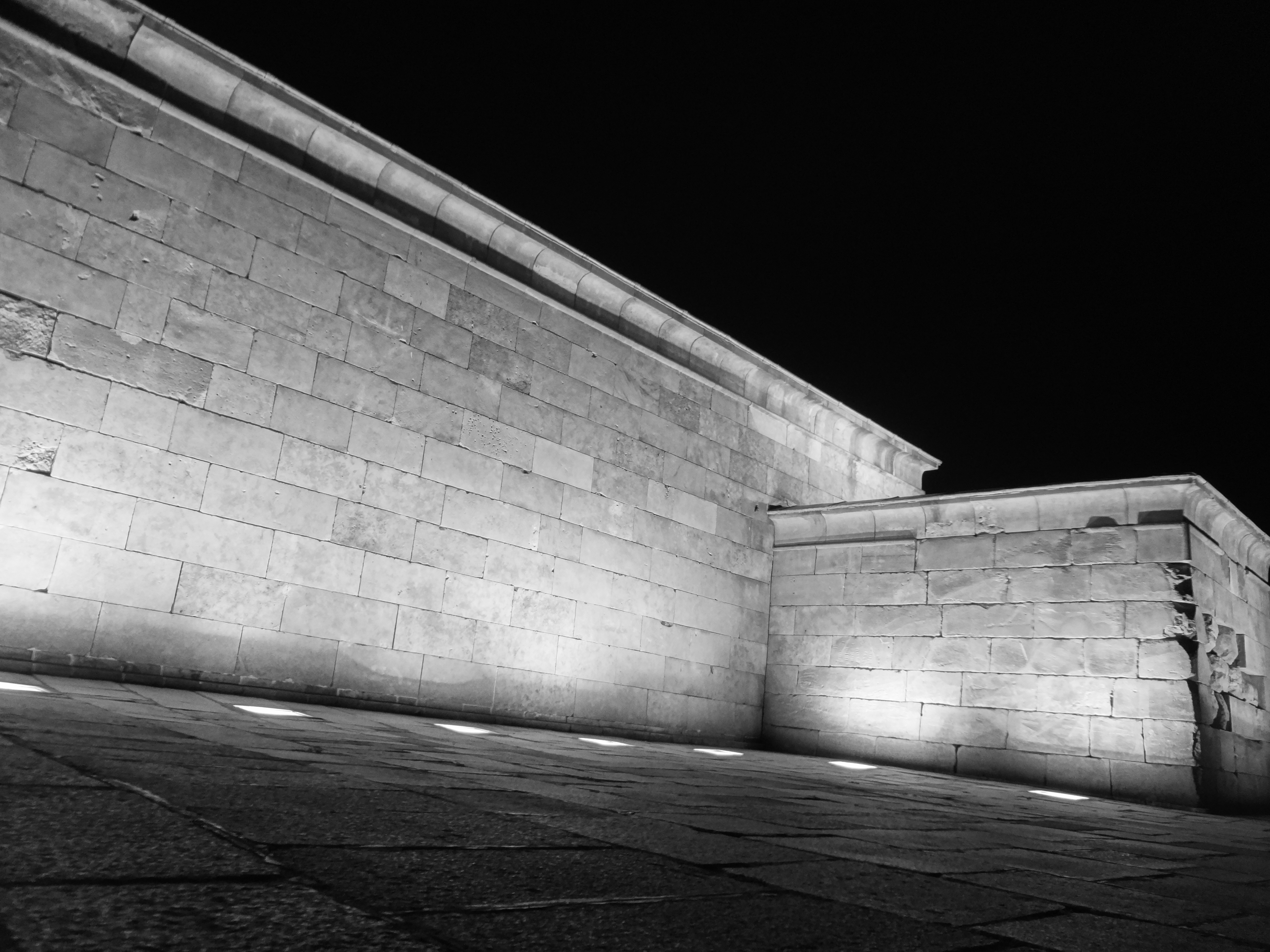 Temple of Debod in Madrid, Spain ' Photographed at night in black and white